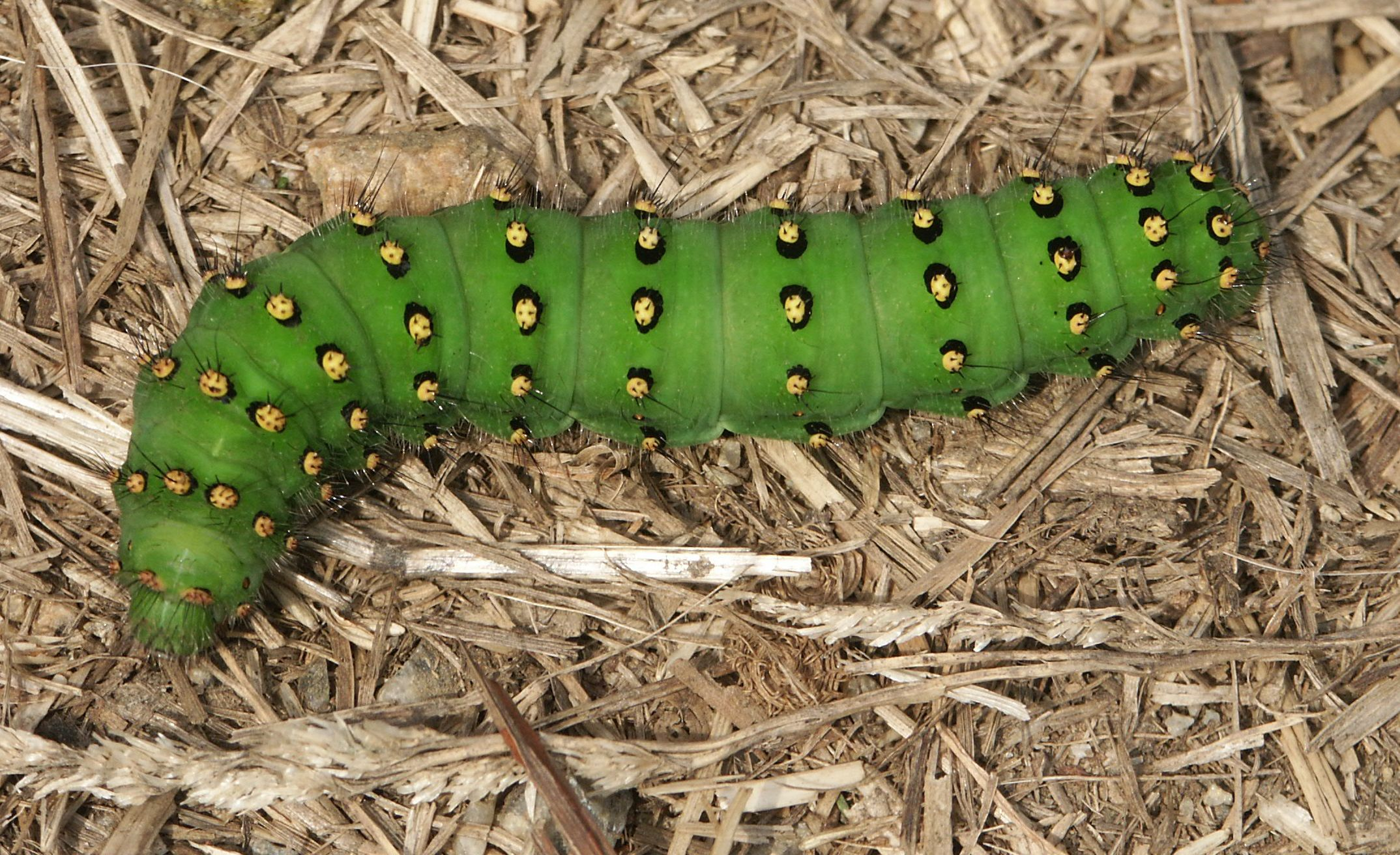 Caterpillar of Emperor Moth